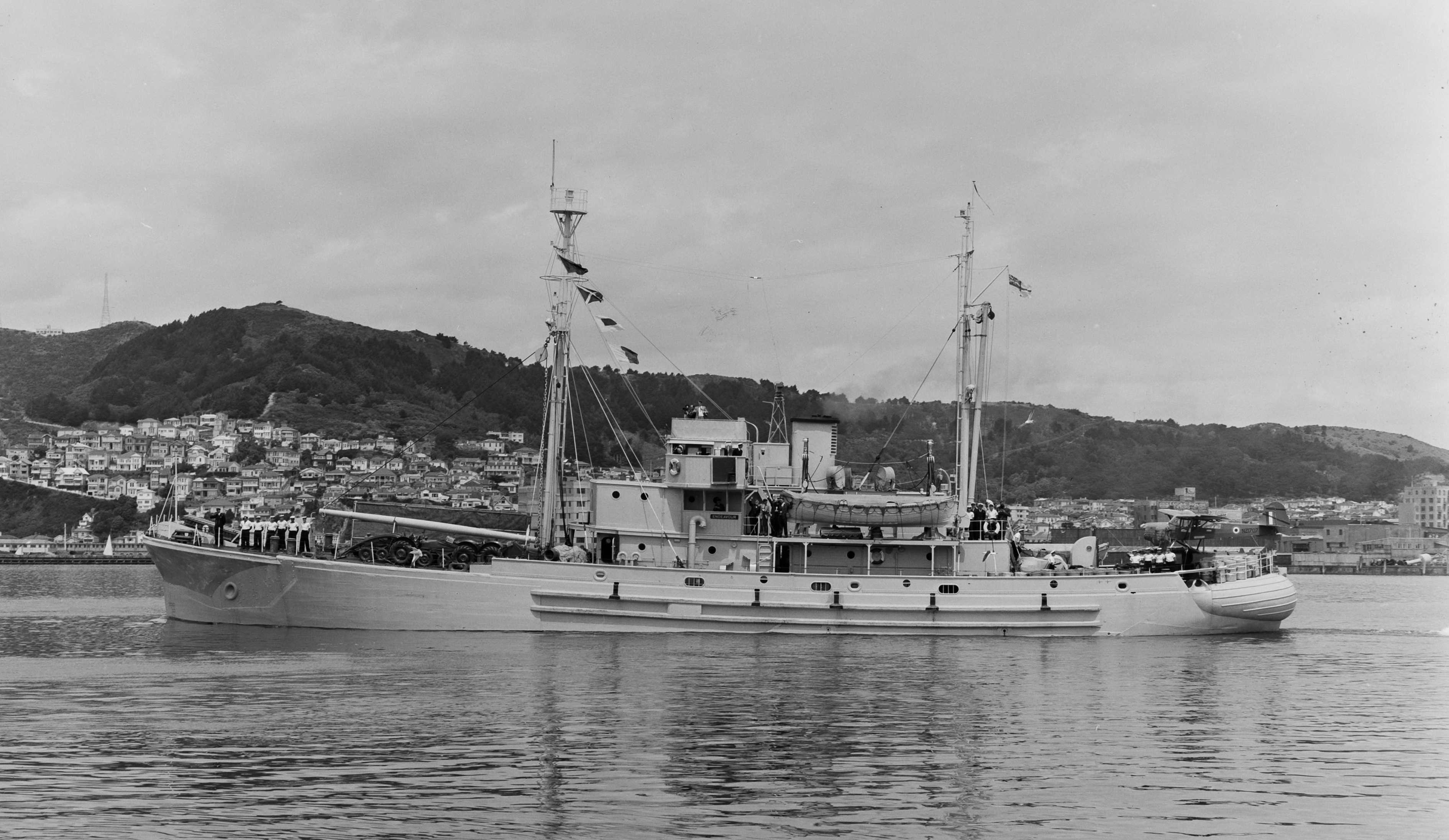 HMNZS Endeavour, the Antarctic expedition ship, Wellington Harbour, New Zealand. Photograph taken 1956 for The Evening Post by an unidentified staff photographer. Physical Description: Cellulosic film negative 3.25 x 4.25 inches.